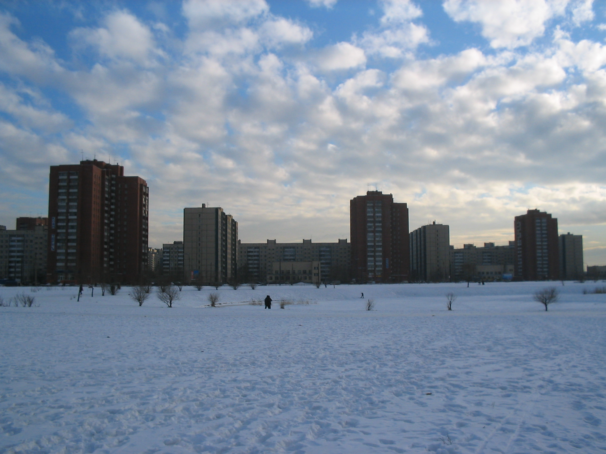 Malinovka Park in Saint Petersburg